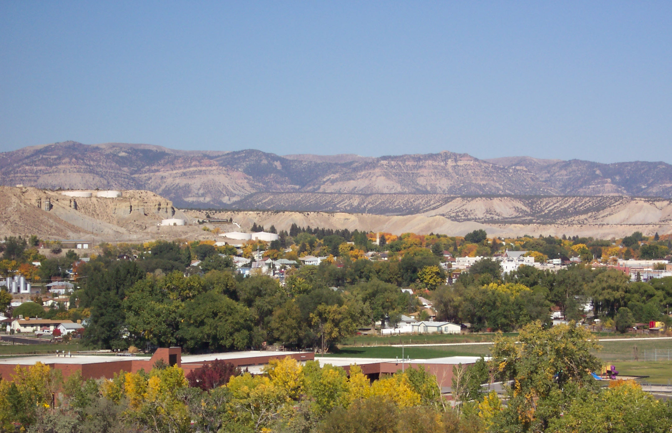 Price, Utah